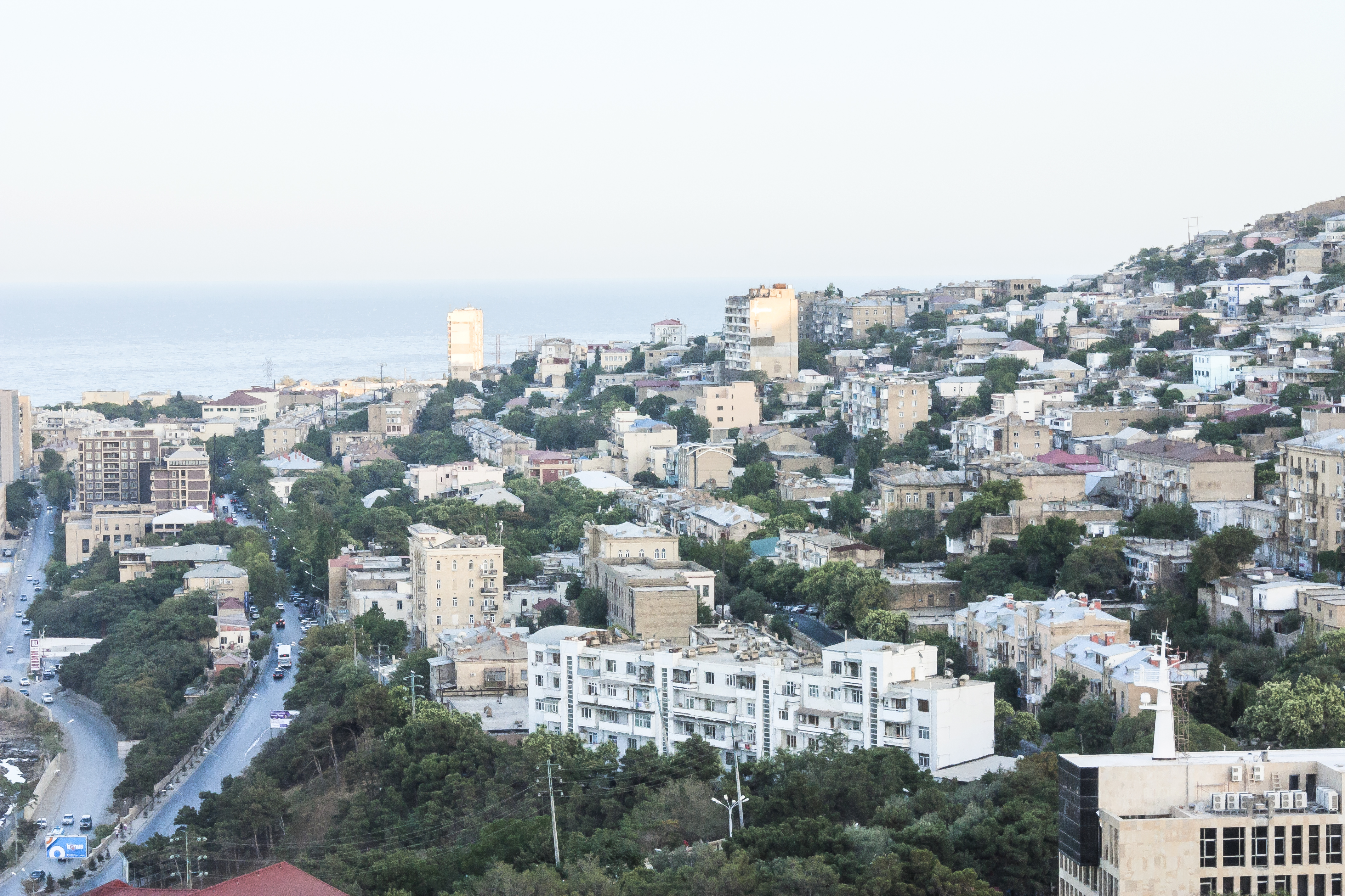 Bayil, Baku, Azerbaijan. July 30, 2011